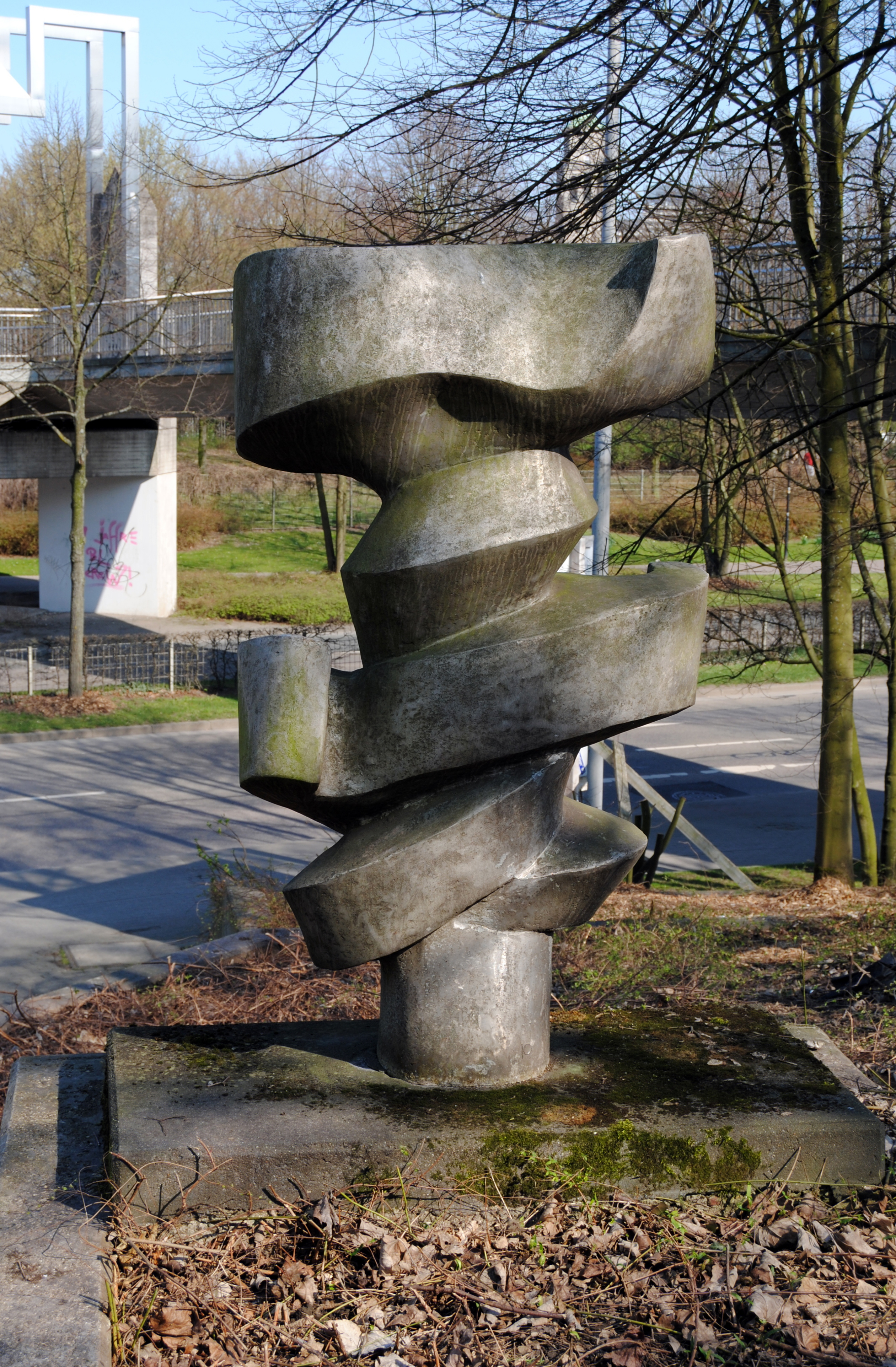 MüGa park in Mülheim (North Rhine-Westphalia, Germany): statue